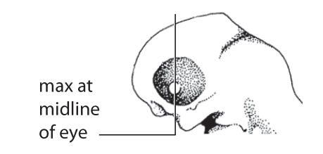 Standard Event System character depiction